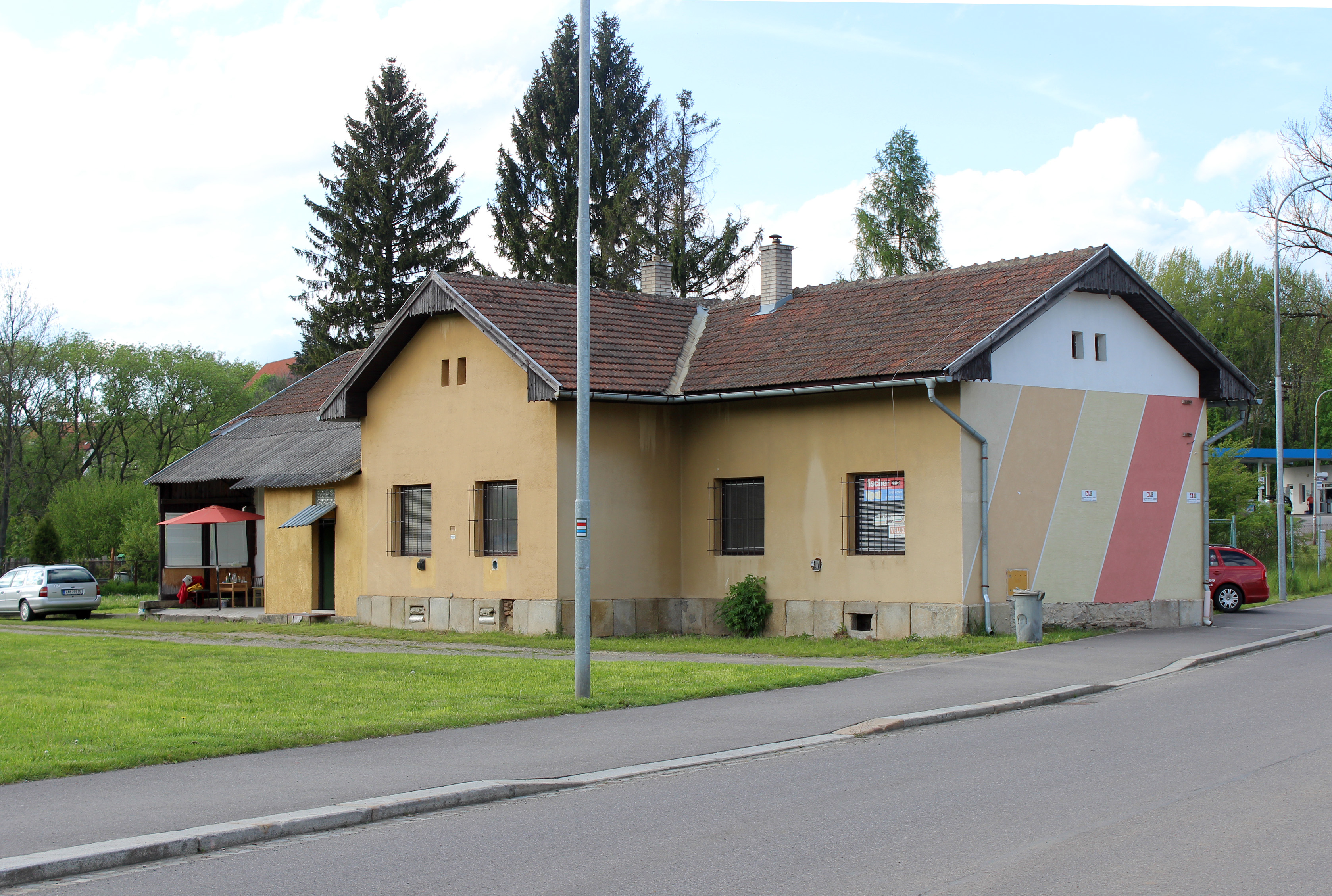 Original train station in Přibyslav, Czech Republic